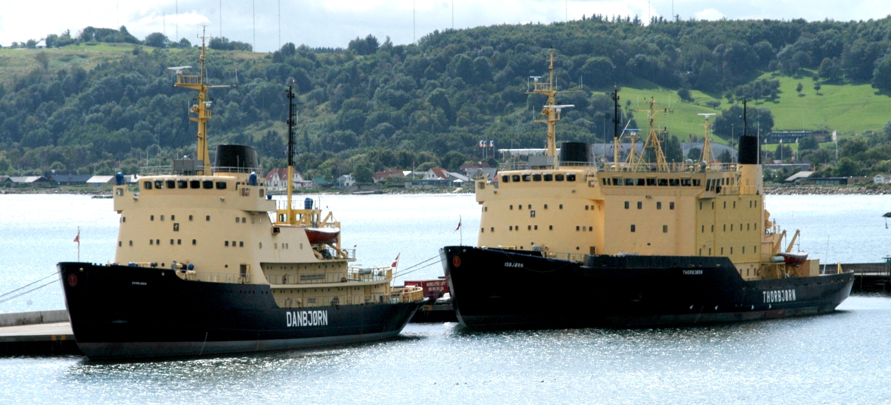 Danish ice breakers Danbjørn, Isbjørn and Thorbjørn at Frederikshavn port Danbjørn IMO number: 6421919 Callsign: OUDN Thorbjørn IMO number: 7904504 Callsign: OUDP